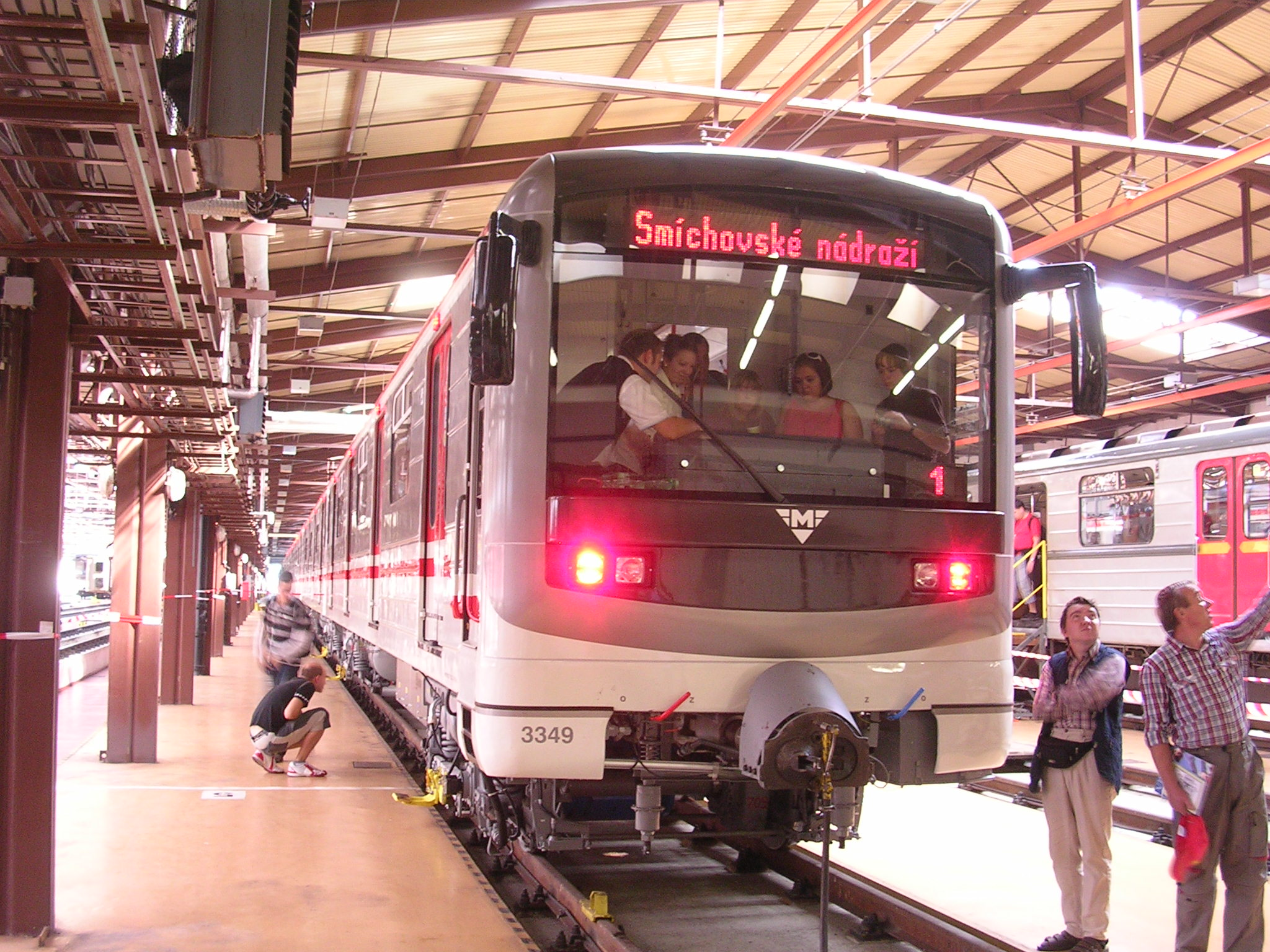 Třebonice, Prague, the Czech Republic. Open Doors Day in Zličín metro depot. Train type 81-71M. - Google Maps - Google Earth